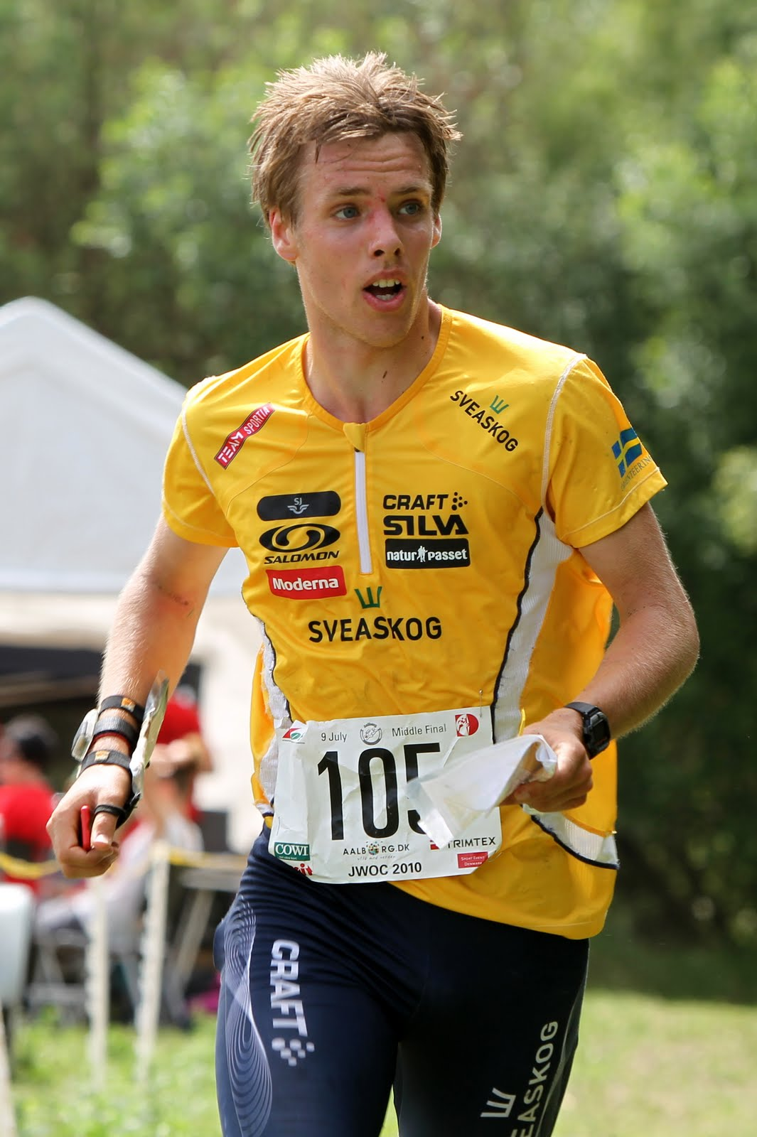 Johan Runesson (SWE) at JWOC 2010